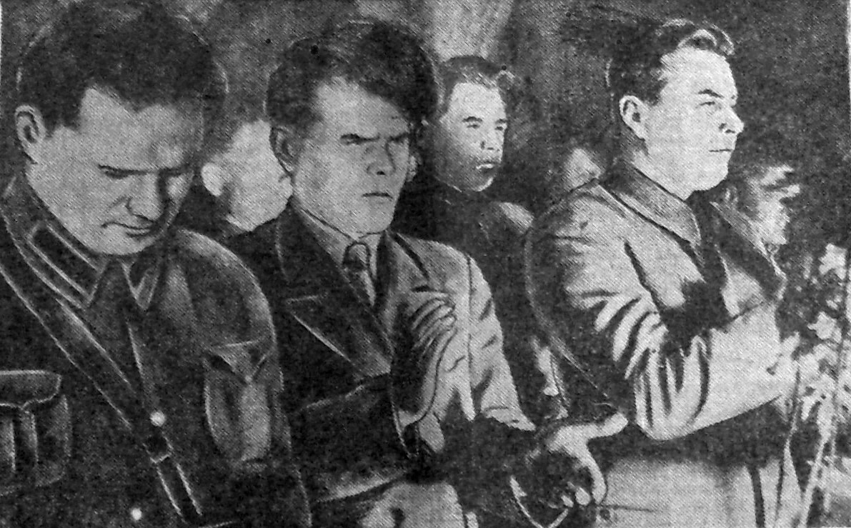 T.G.Udodov, G.M.Stazevitch, 1937